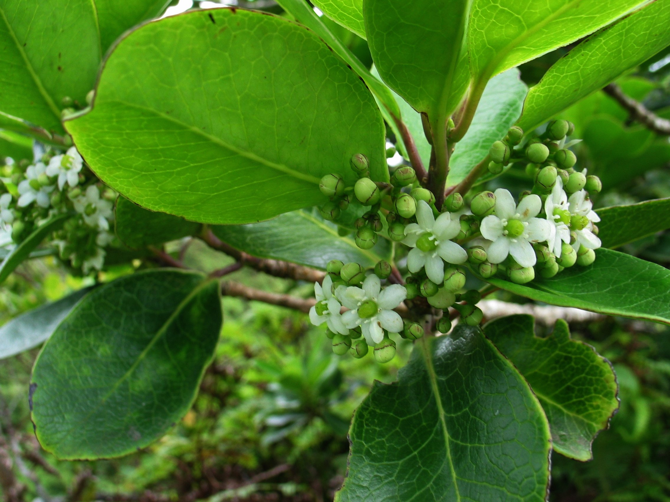 Kāwaʻu, or Hawaiian holly Aquifoliaceae Indigenous to the Hawaiian islands Hawaiʻiloa Ridge, Oʻahu Early Hawaiians used the wood for kapa (tapa) anvils called kua kuku, on which the second-stage kapa making process was done on. The wood was also used for trimmings canoes (waʻa).